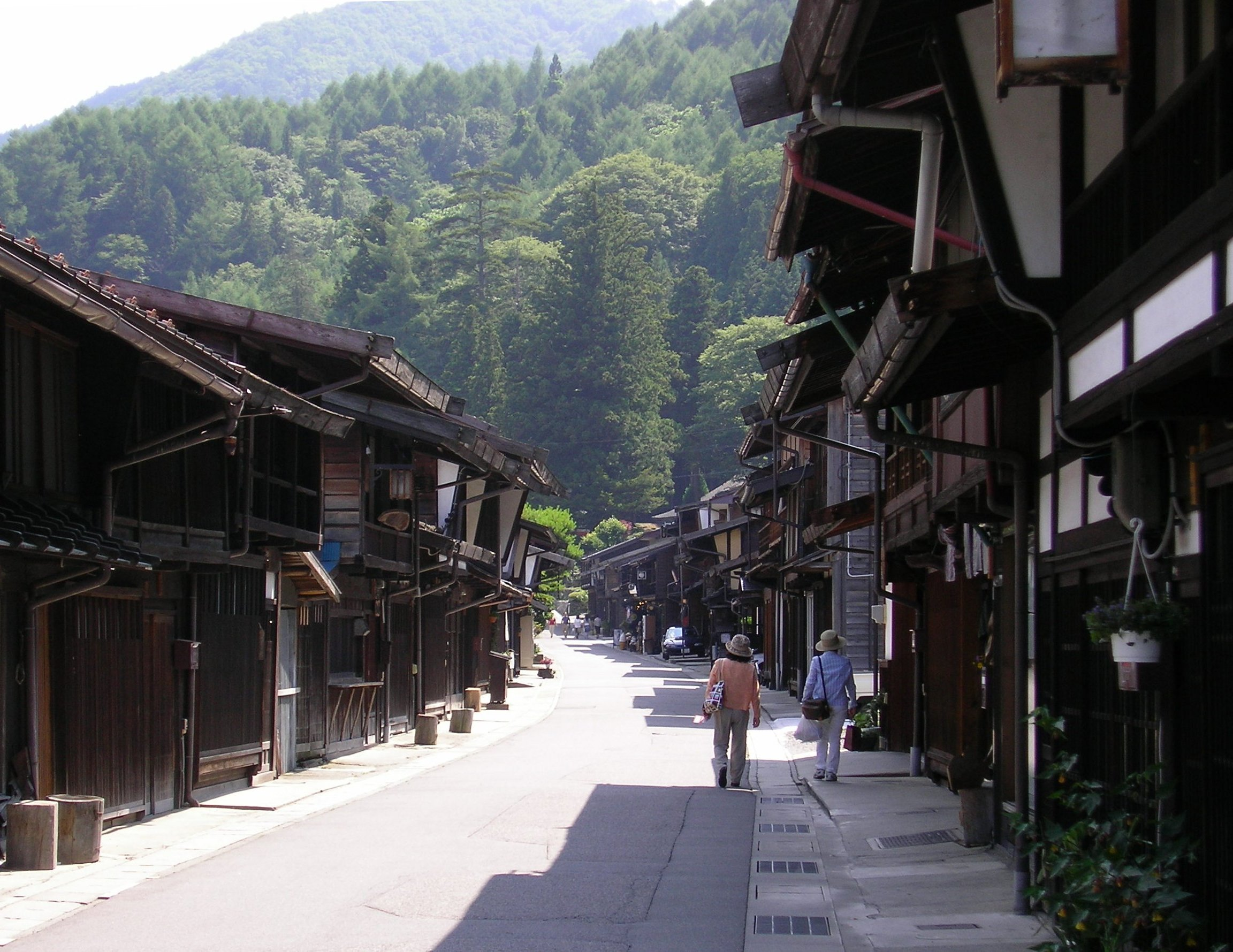 Narai-juku, thirty-fourth of the sixty-nine stations of the Nakasendō.